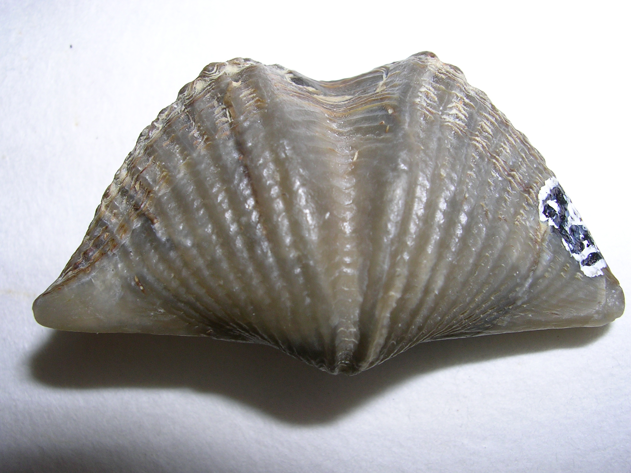 Mucrospirifer thedfordensis fossil (Devonian) founded in Canada, in a laboratory of practices of the Faculty of Sciences of the University of Corunna.